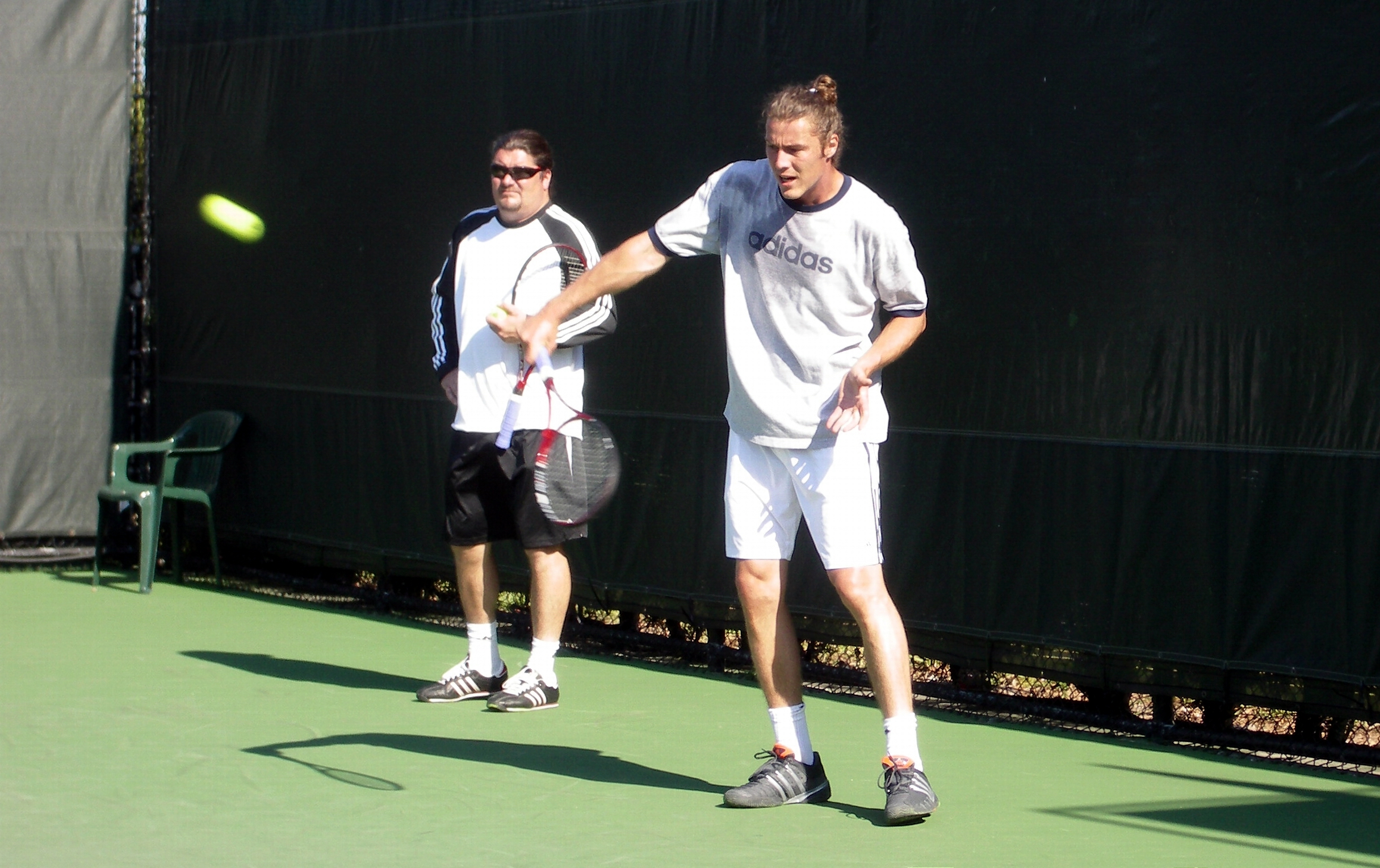 Taken by myself, User:AndonicO, at a practice court during the 2006 Nasdaq 100 Open.